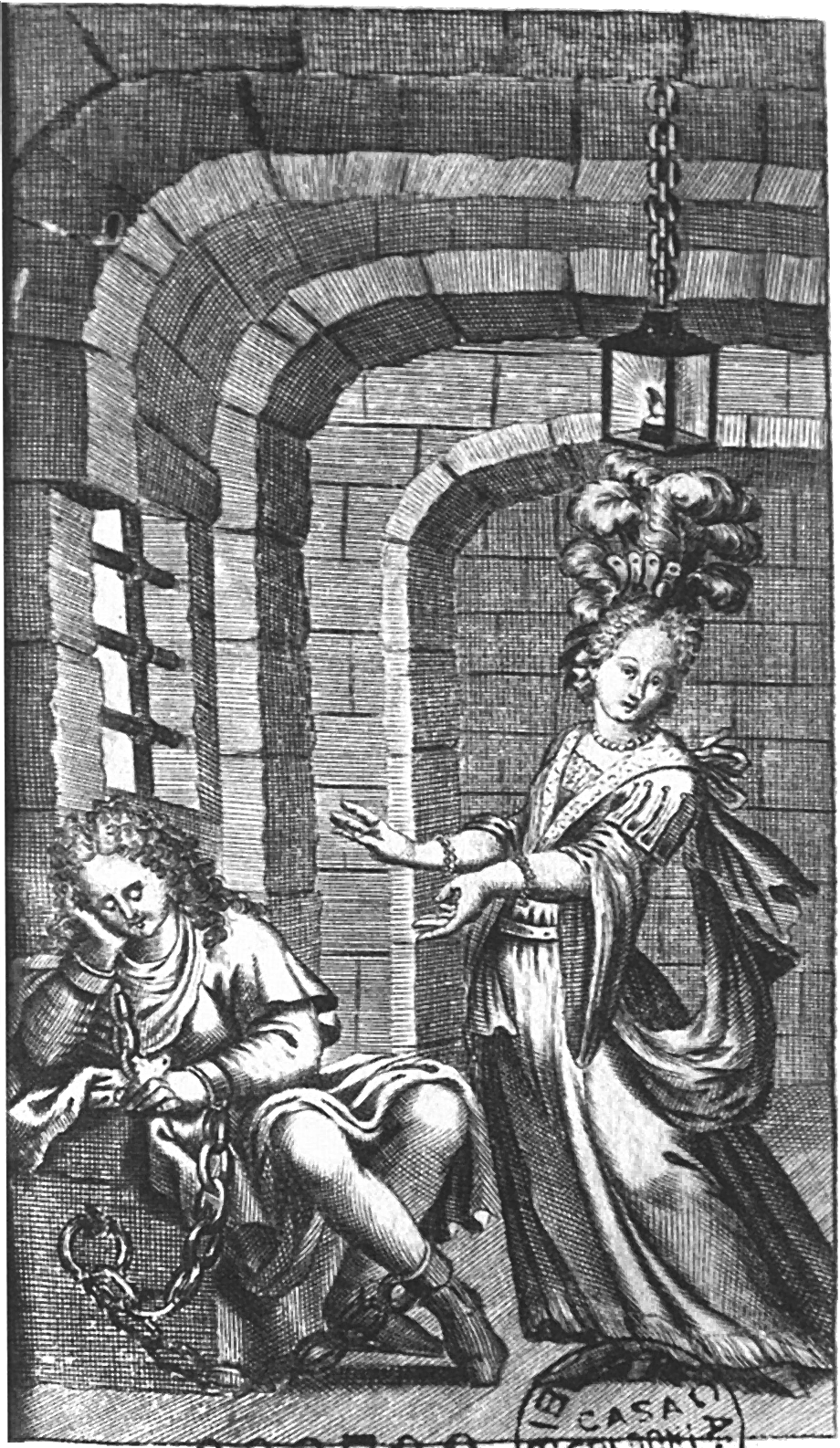 Tito Manlio, act III - Servilia visits the sleeping Manlio in prison